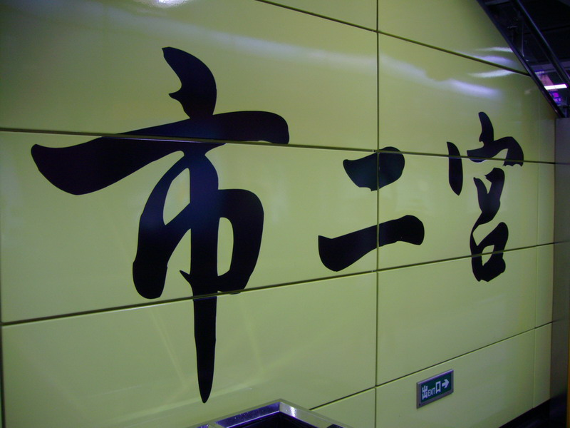 Guangzhou's metro station 2nd Workers' Cultural Palace Station (市二宫站)